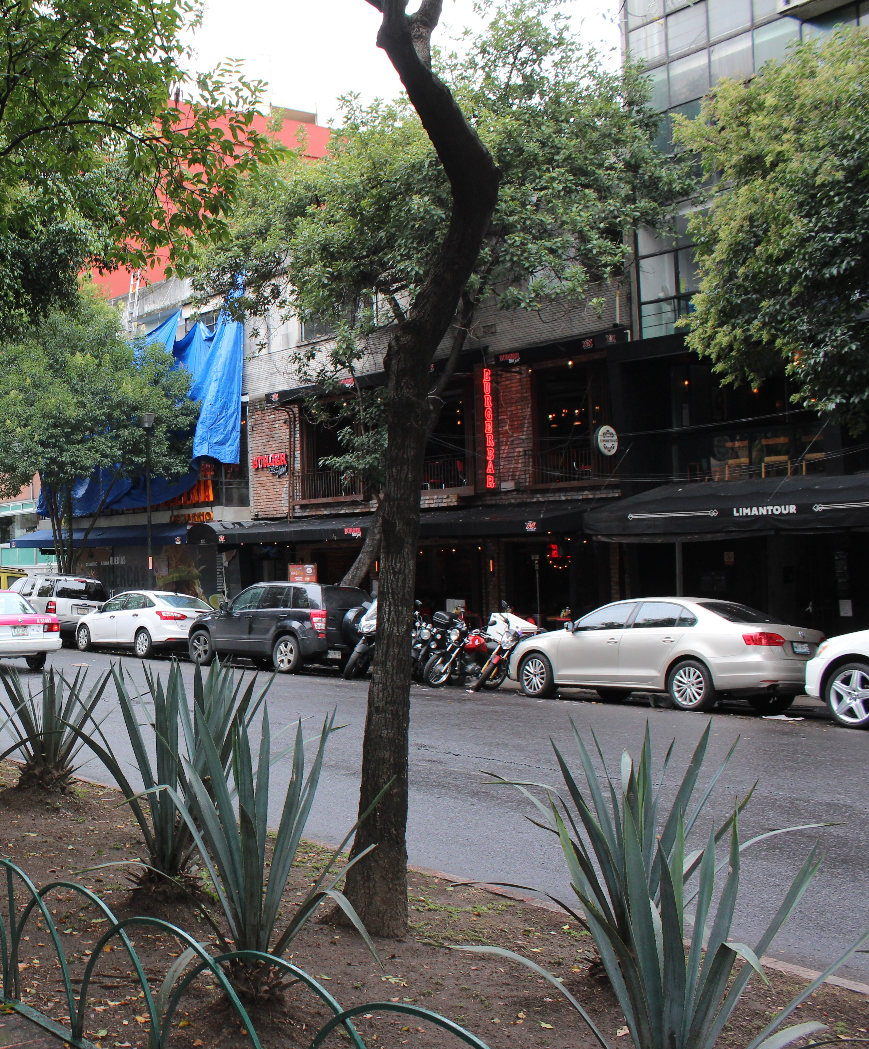 The most important bar zone of Obregon´s Avenue make contrast with the nature that surrounds it